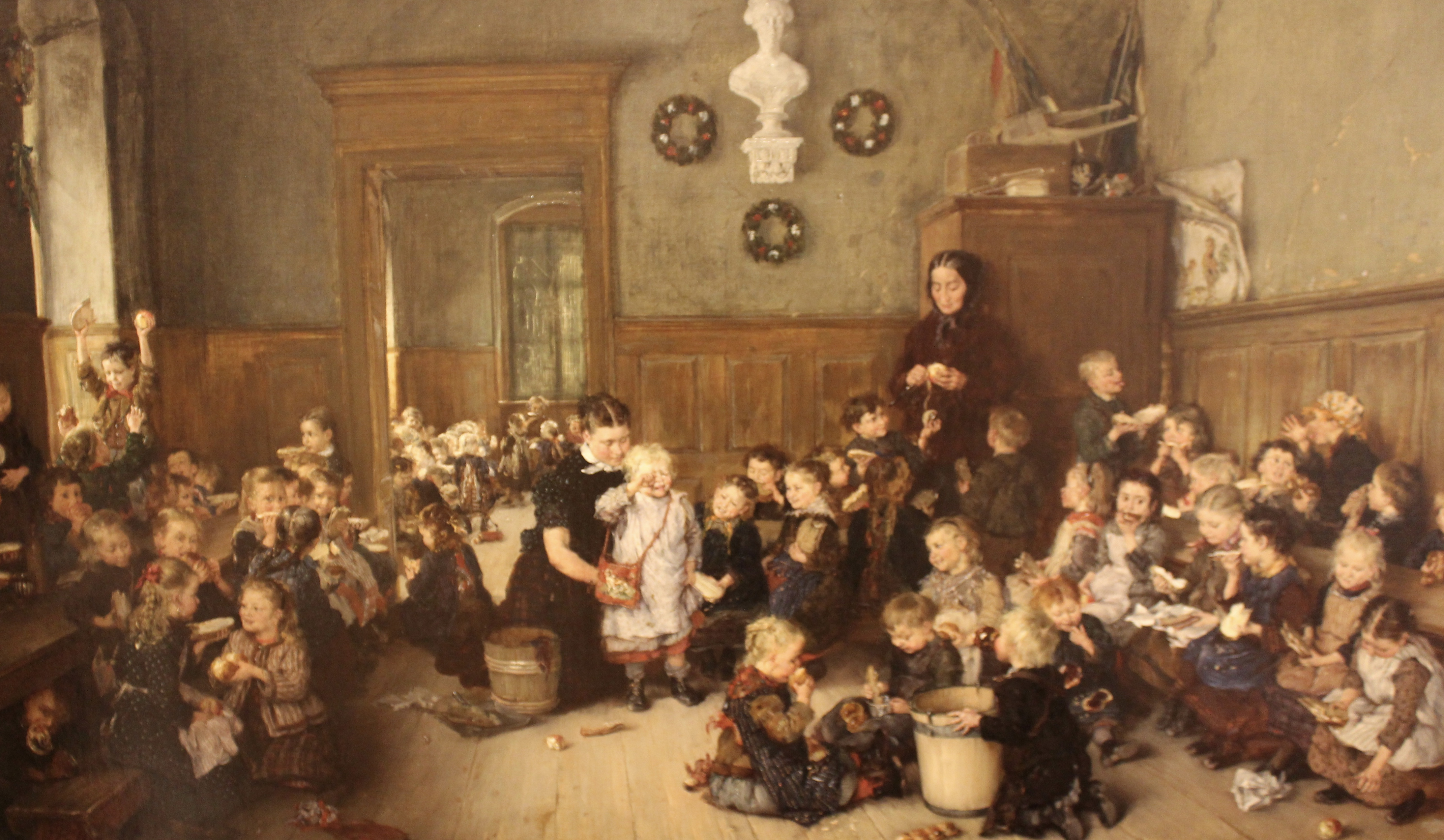 Kindergarten, painting from the Widener University, Alfred O. Deshong Colection.